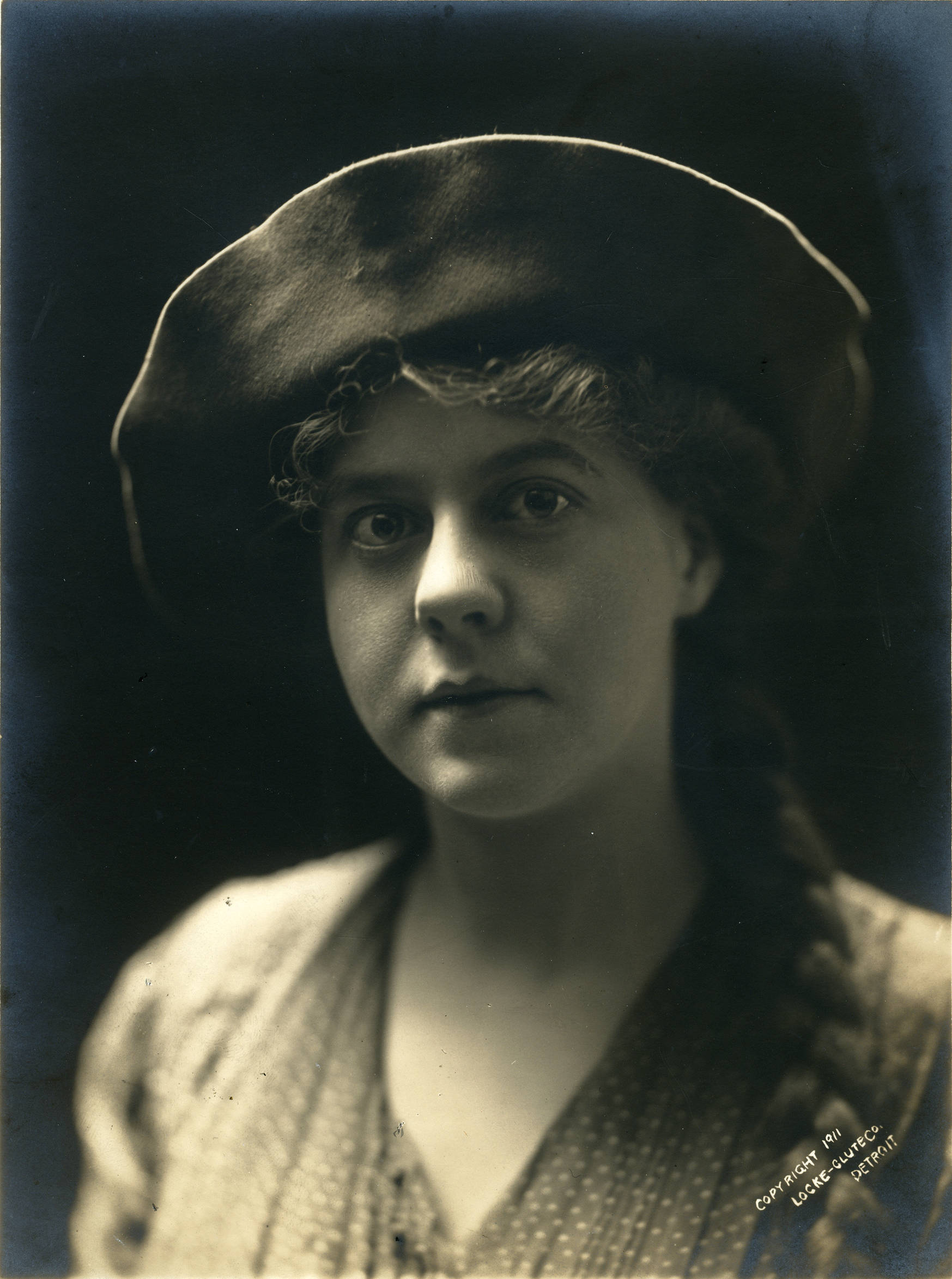 Leora Spellmeyer, stage actress Subjects: actresses